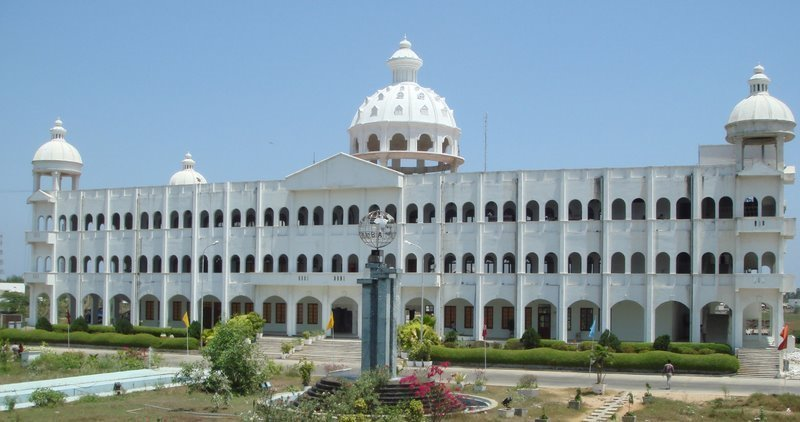 Sathyabama University Administrative Building